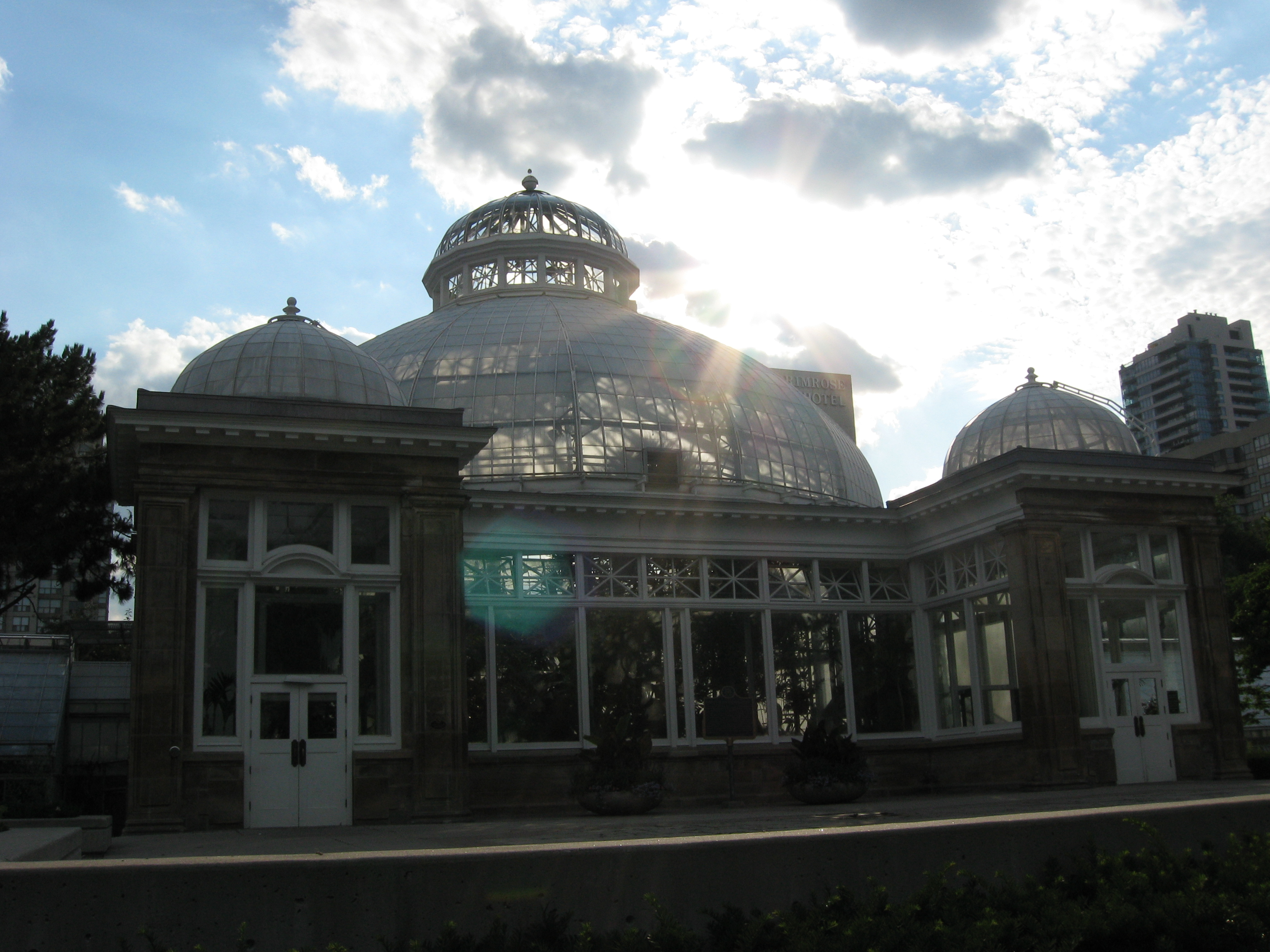 Allan Gardens bathed in sunlight. Toronto, Canada.Allan Gardens